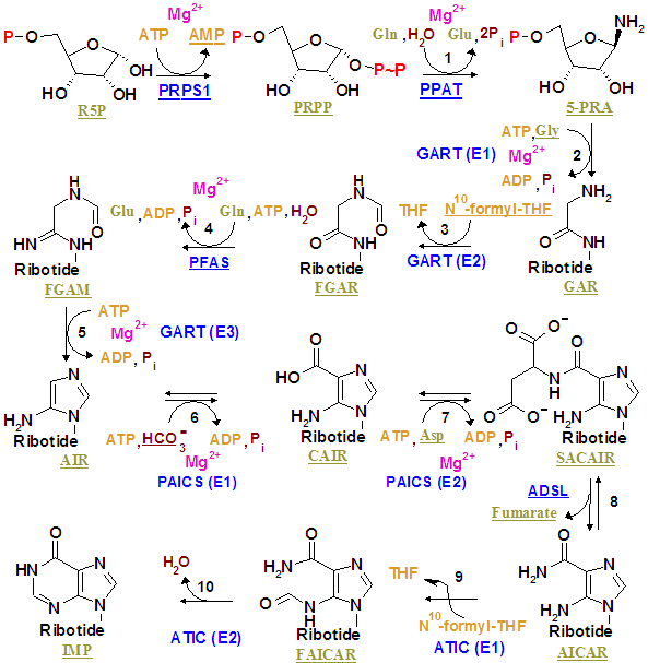 User:BorisTM/ImageInfo